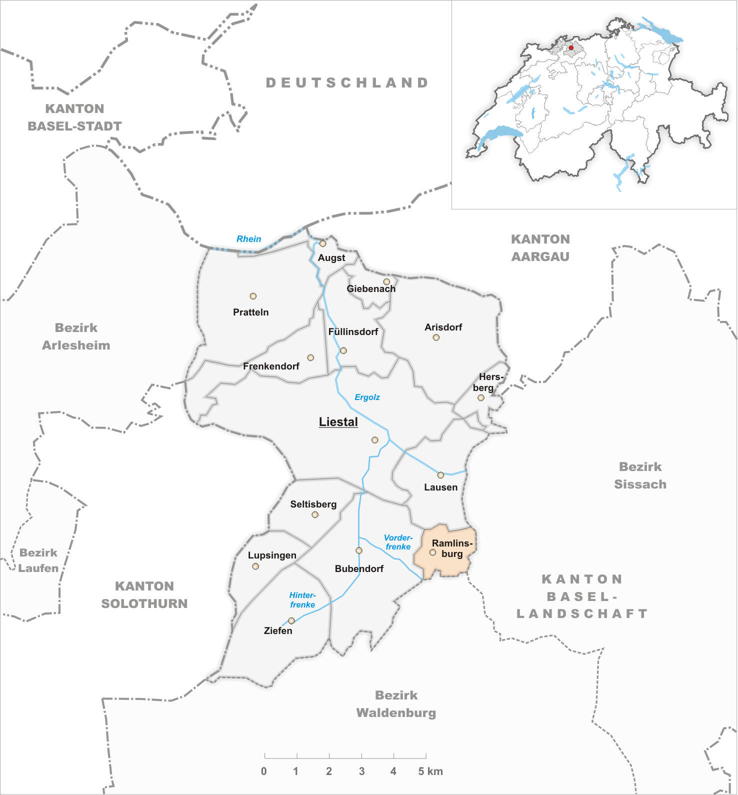 Municipality Ramlinsburg